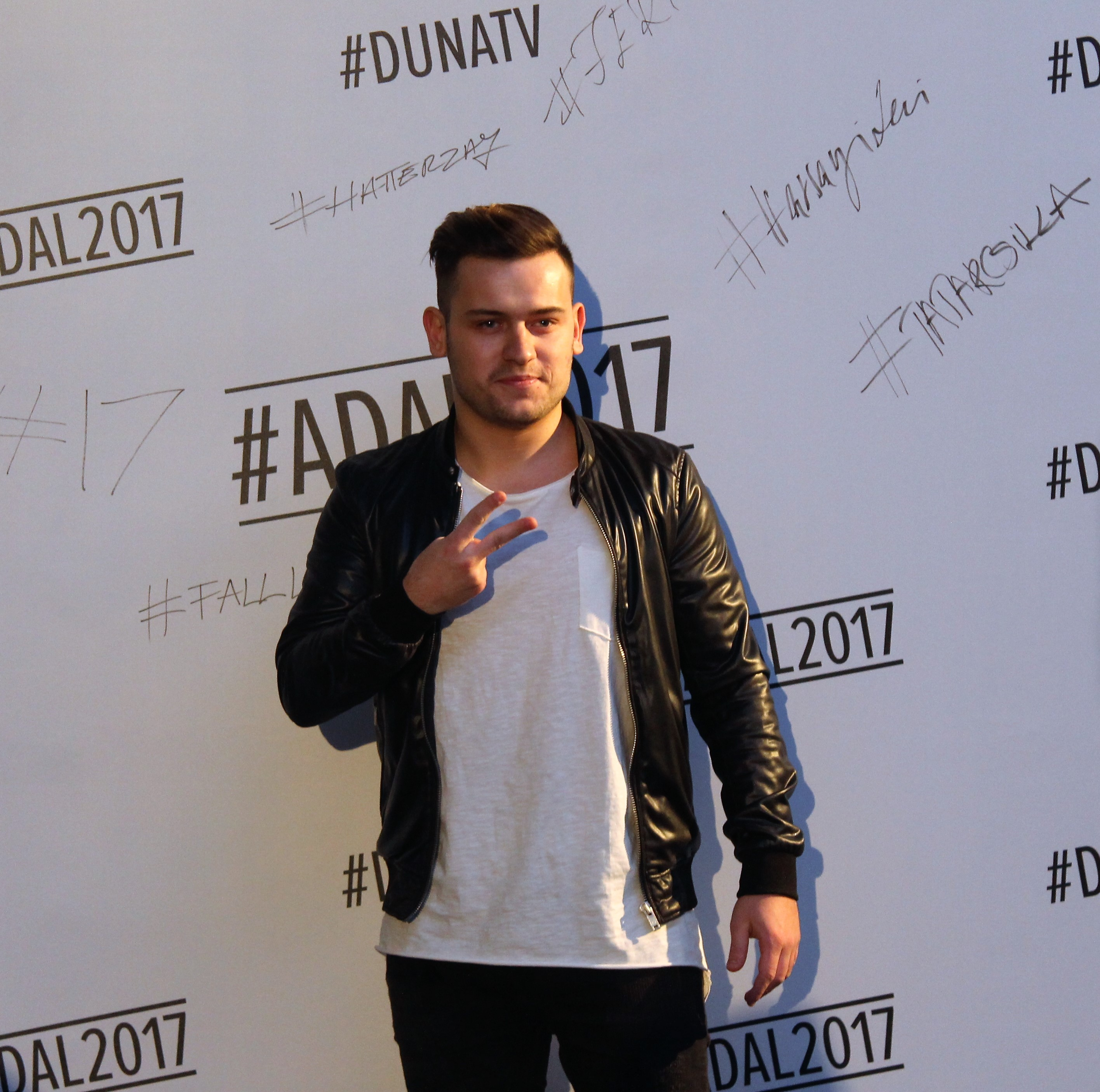 A Dal 2017 participant: Ádám Szabó